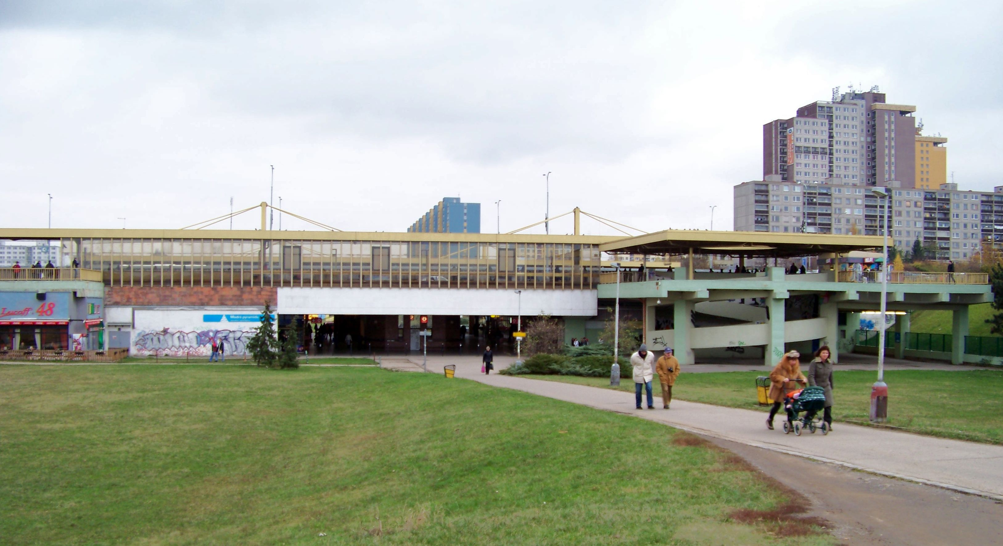 Chodov, Prague, the Czech Republic. Opatov metro station.